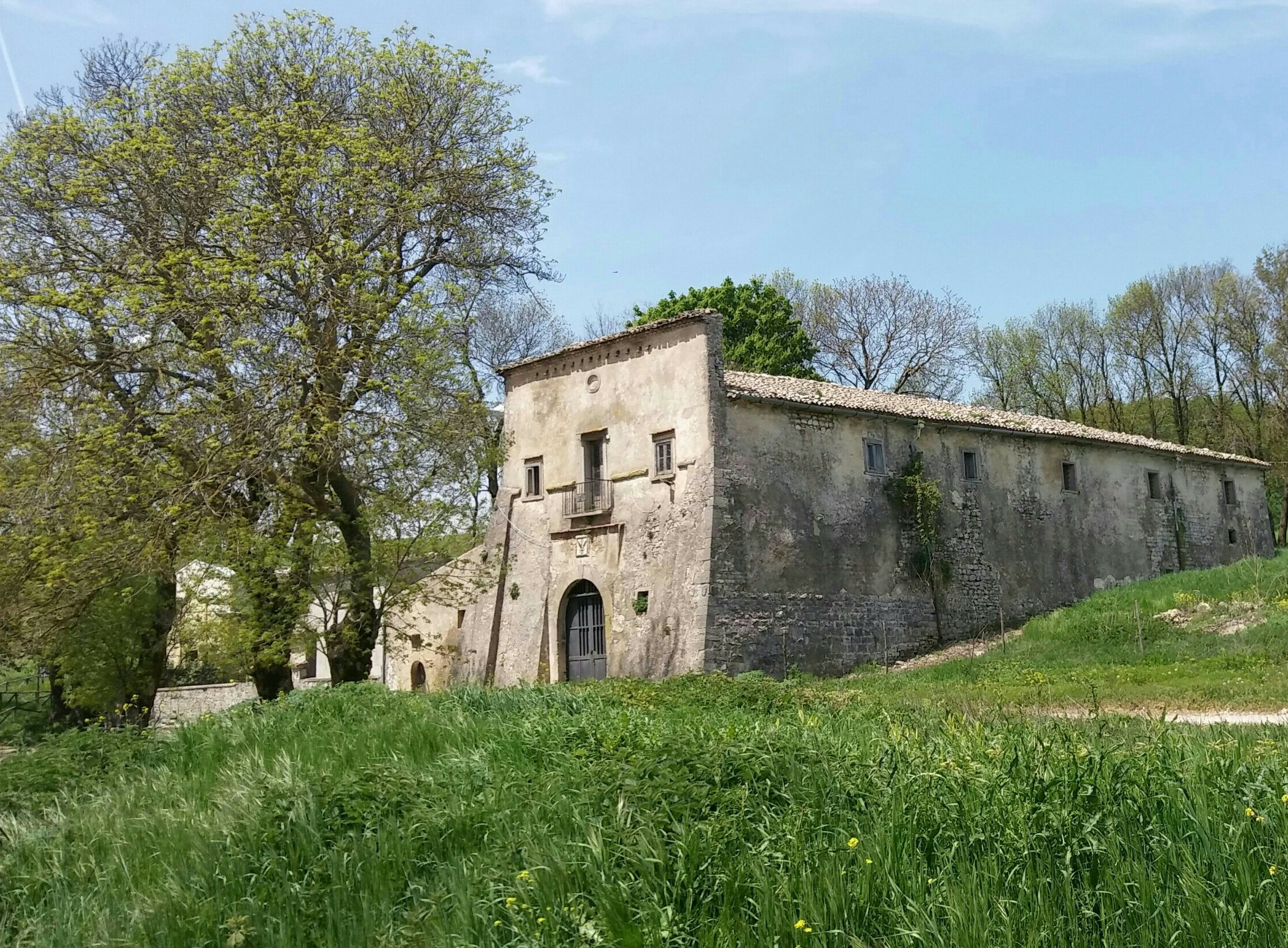 Taverna San Vito inn along Tratturello transhumance trail near Faeto, Italy.